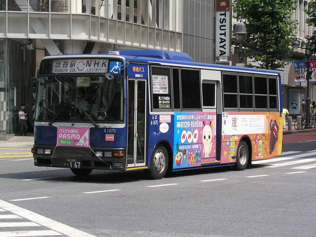 NHK Studio Park shuttle from Shibuya station, fleet of Tokyu Bus. Model: Mitsubishi Fuso Aero Midi KC-MK219J License plate: TKS200 KA-167 Placed: neighbour of Shibuya station west, Shibuya ward, Tokyo Japan